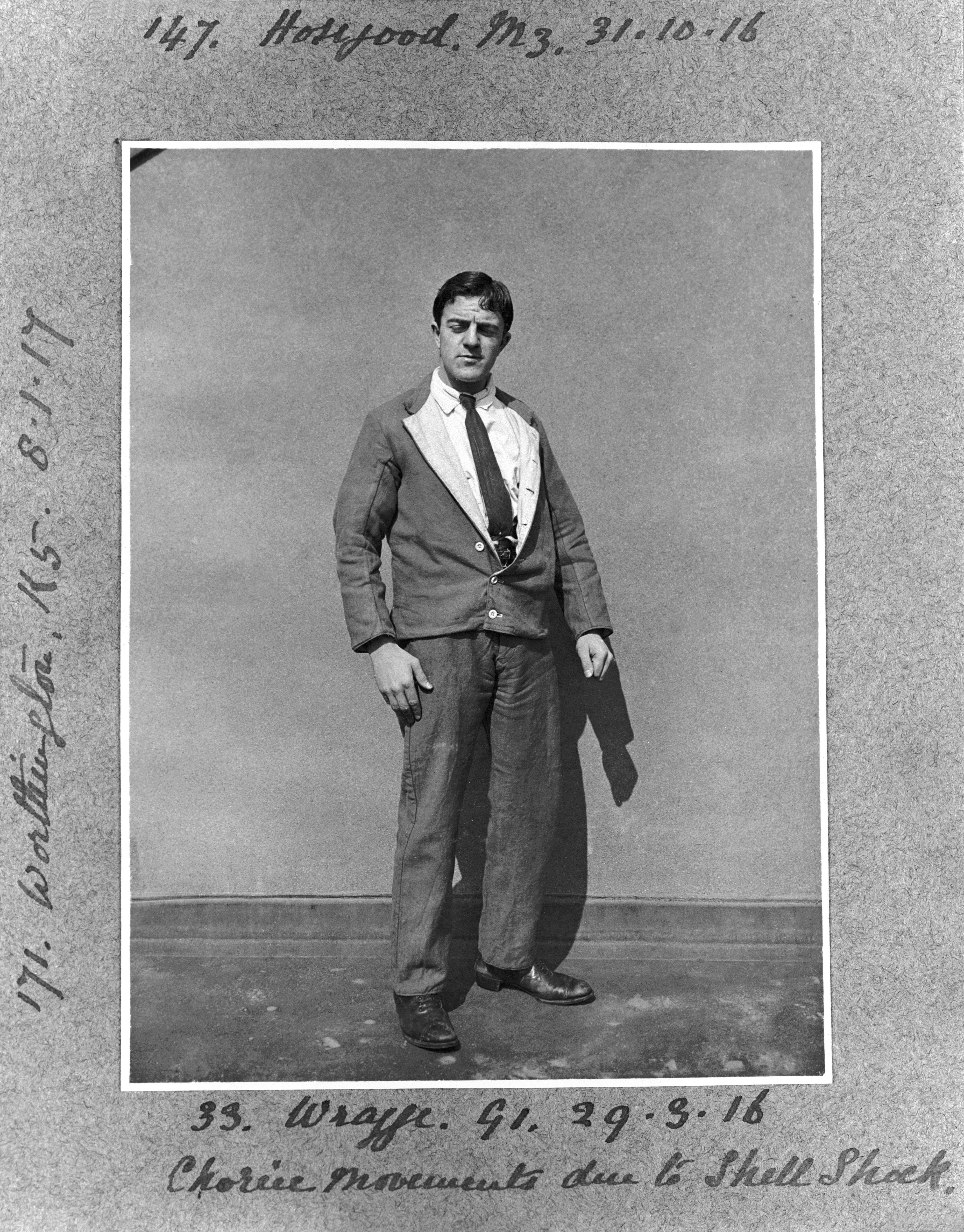 Chronic movements due to shell shock, (1916) Photograph no. 33. Archives & Manuscripts Keywords: king george v military hosp.; PLASTIC SURGERY; Albert Norman